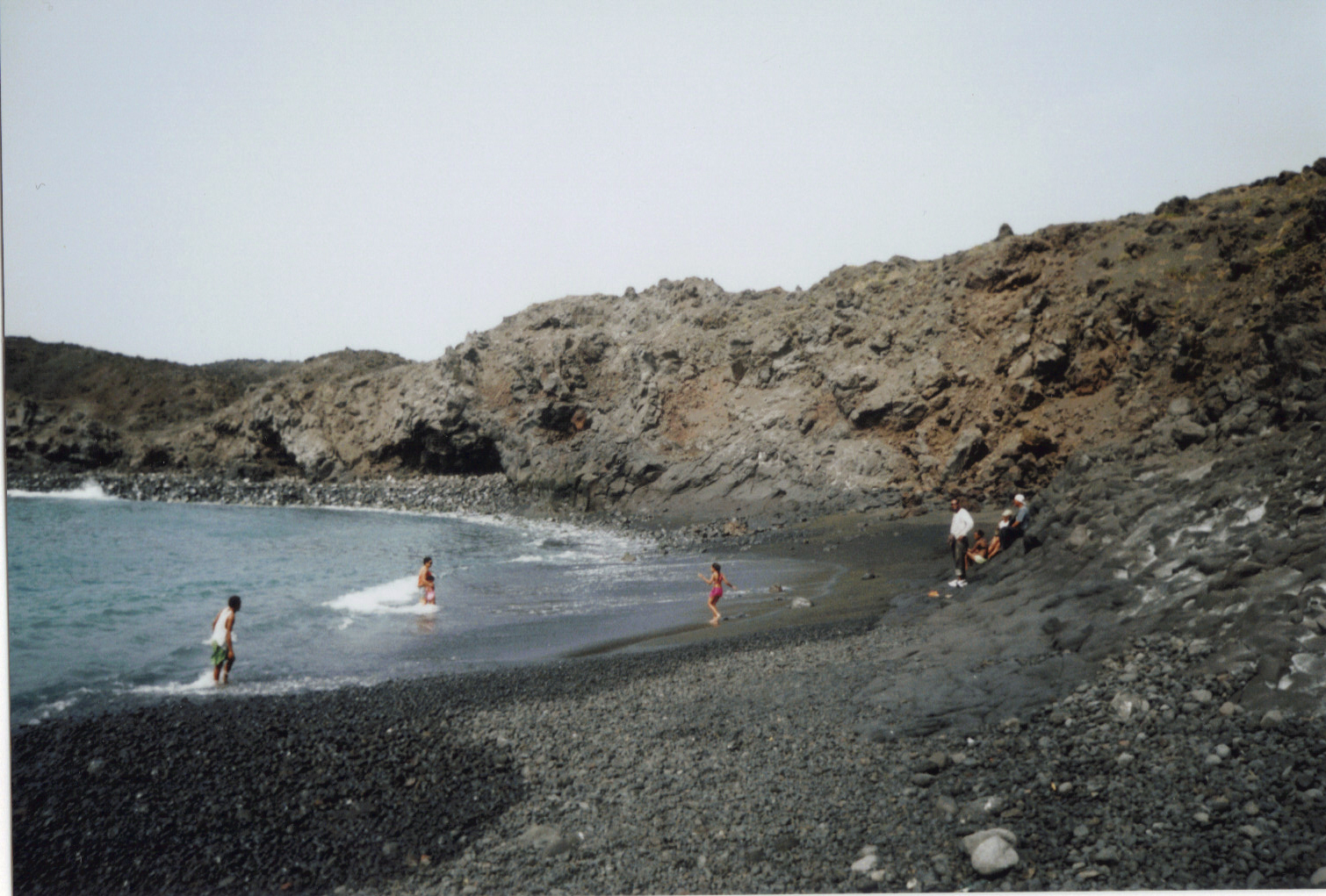 "Ponta da Salina" Beach, island of Fogo, Cabo Verde